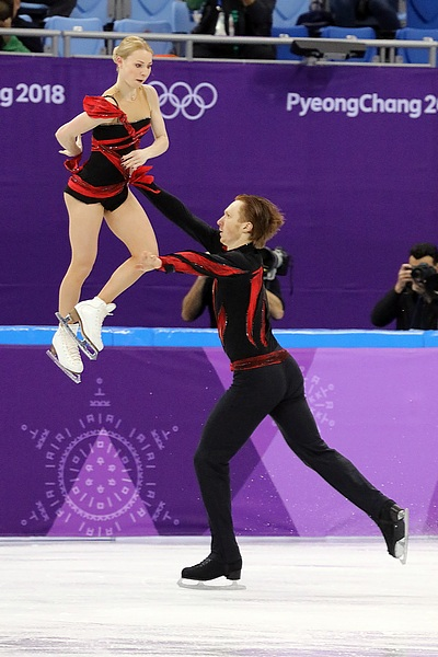 E. Tarasova and V. Morozov at the 2018 Winter Olympics